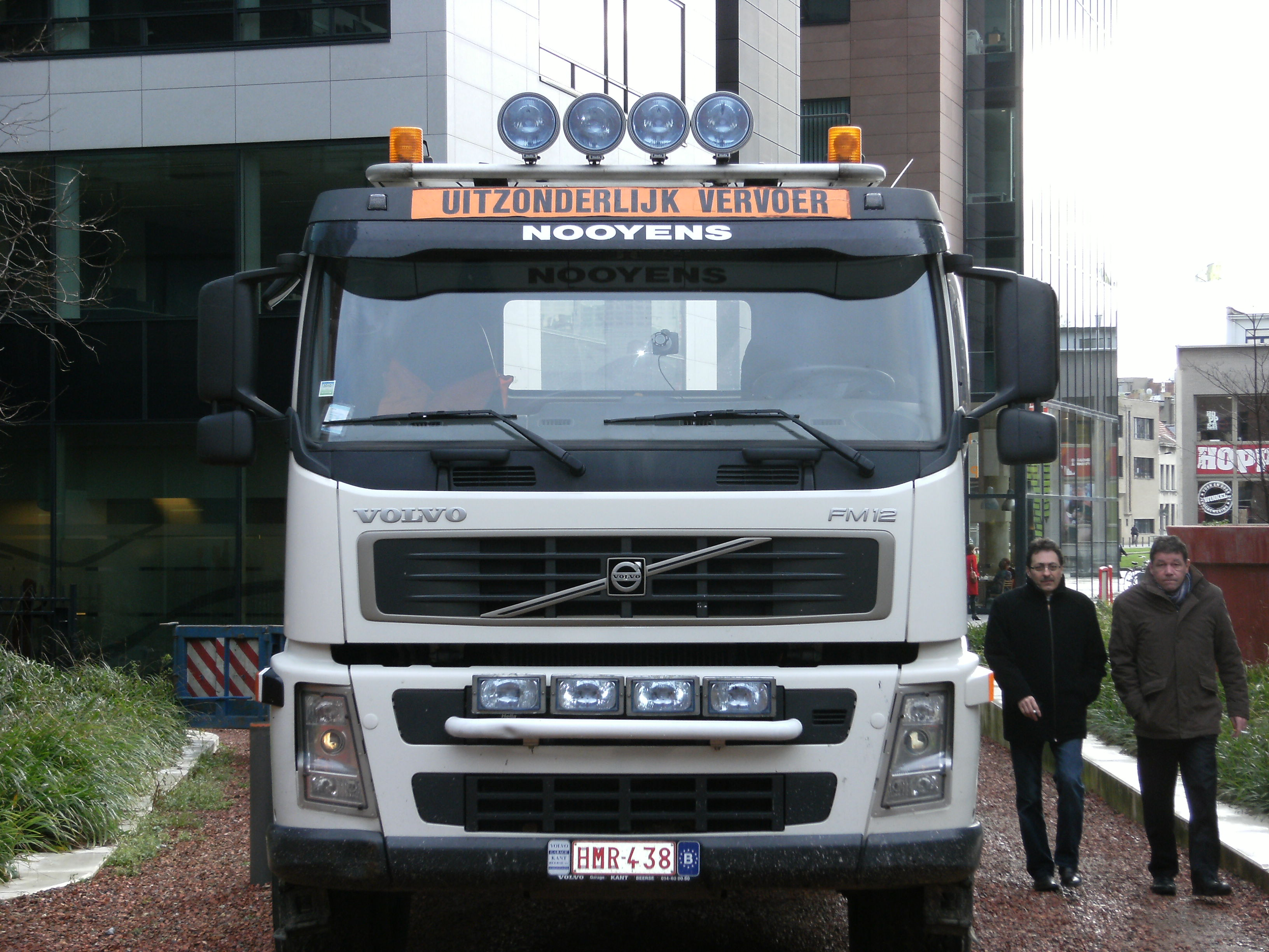 Volvo truck in Antwerpen.